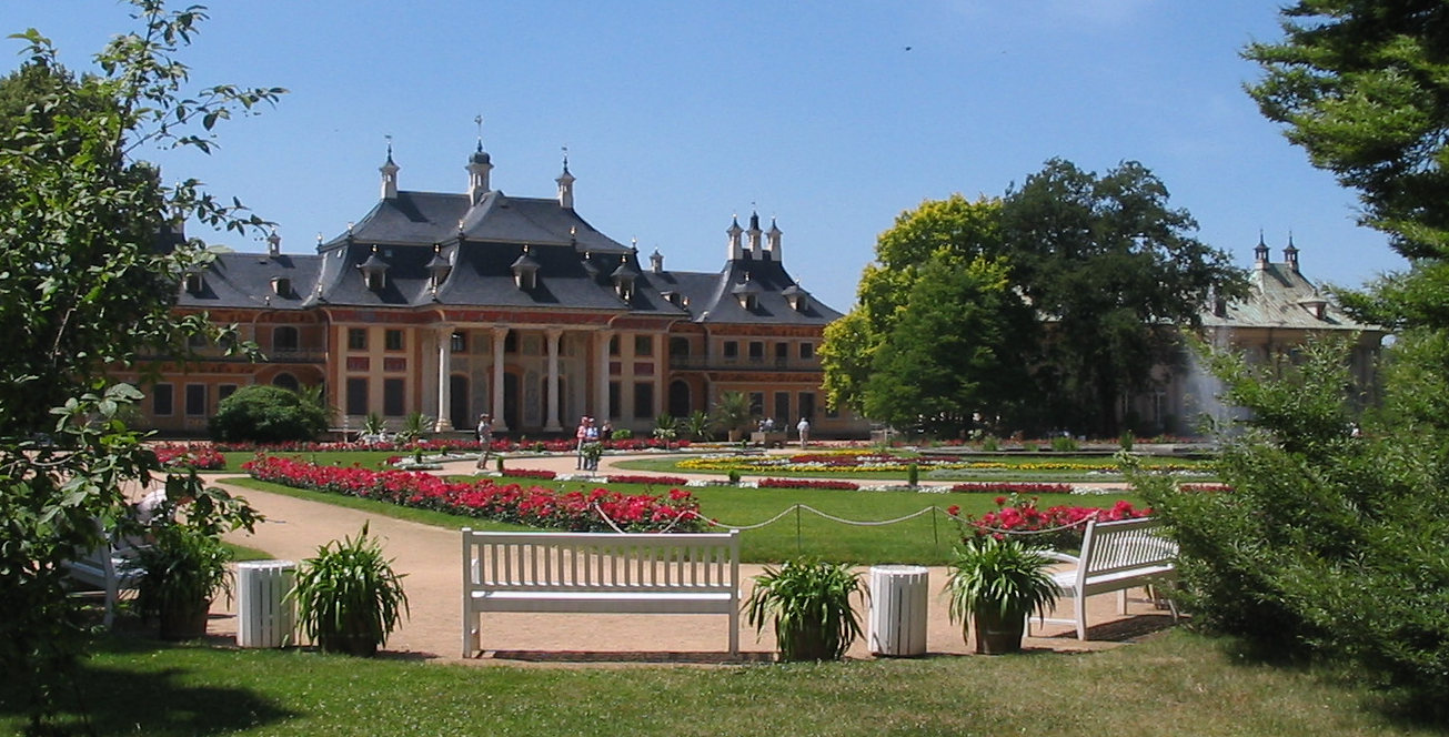 Pillnitz Castle, Hillside Palace